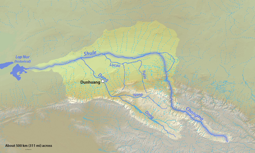 Map of the Shule River drainage basin in northern China (Basin outline to the northwest approximate)